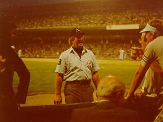 I took this photo of Durwood Merrill chatting with fans near the left field corner box seats of Comiskey Park, Chicago, during the night game of May 21, 1980, which was won by the visiting Minnesota Twins, 3-2.